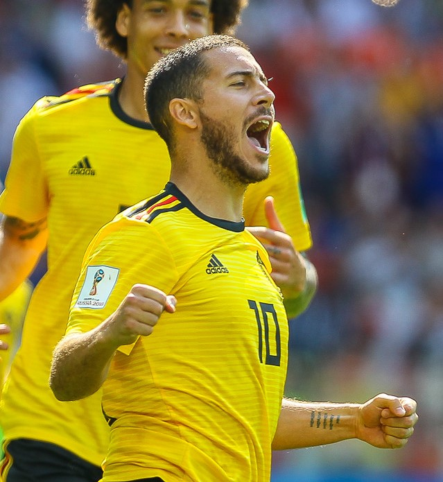 Eden Hazard